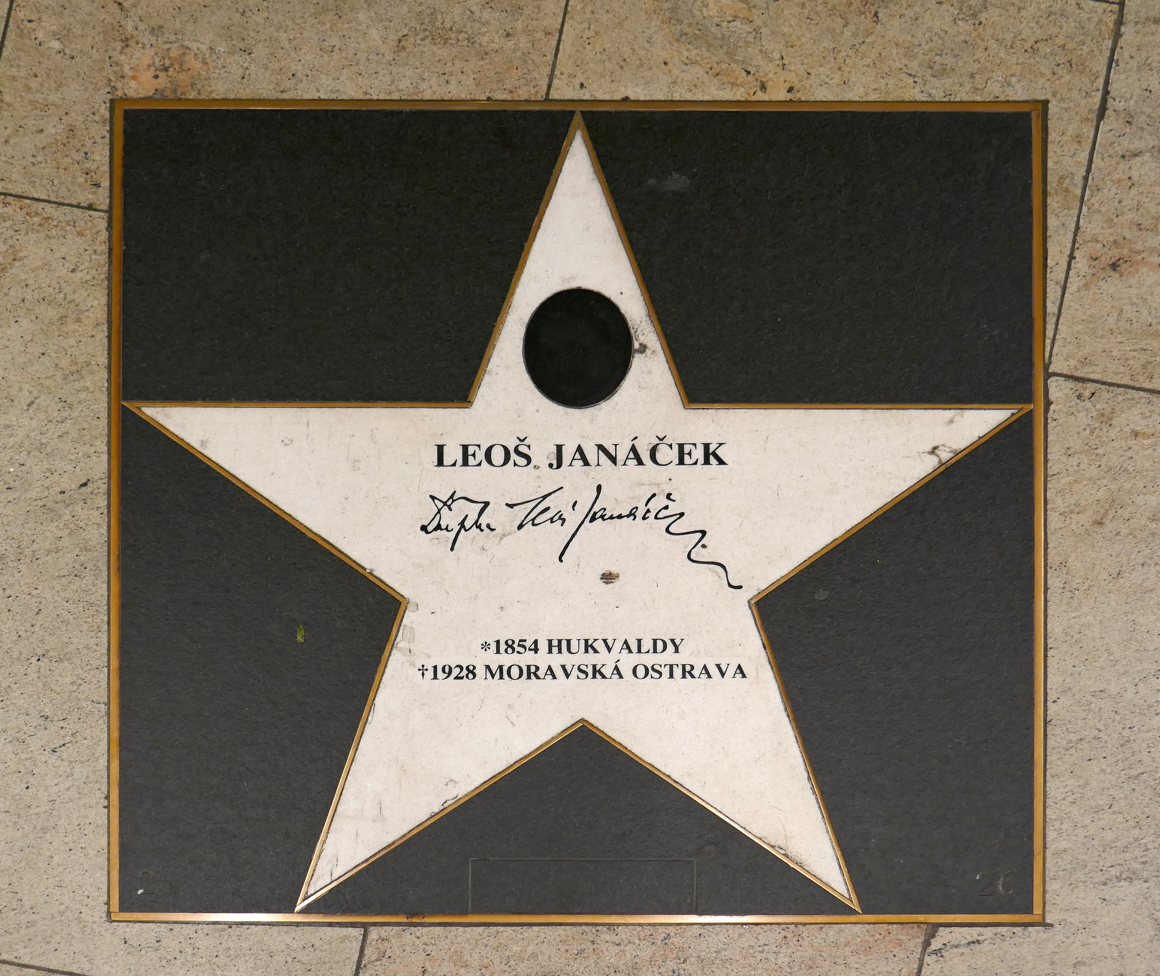 Walk of Fame Vienna Leoš Janáček.